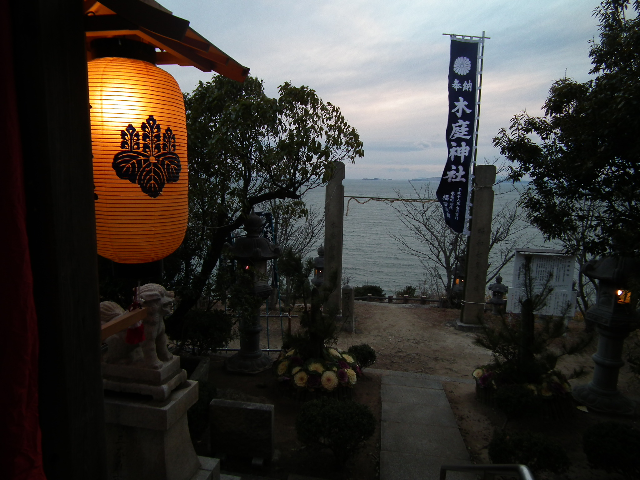 Kiniwa-shrine